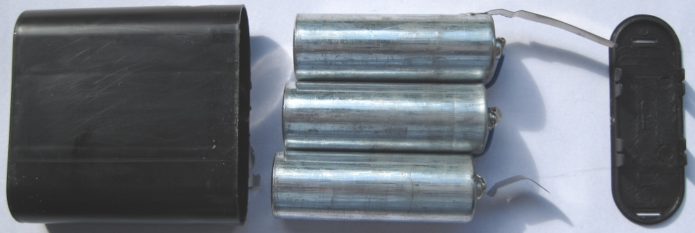 An unbranded 4.5 Volt (3R12) lantern battery which has been opened and the contents photographed. The three cells pictured are joined in series and are 1.5V R12 (B size).